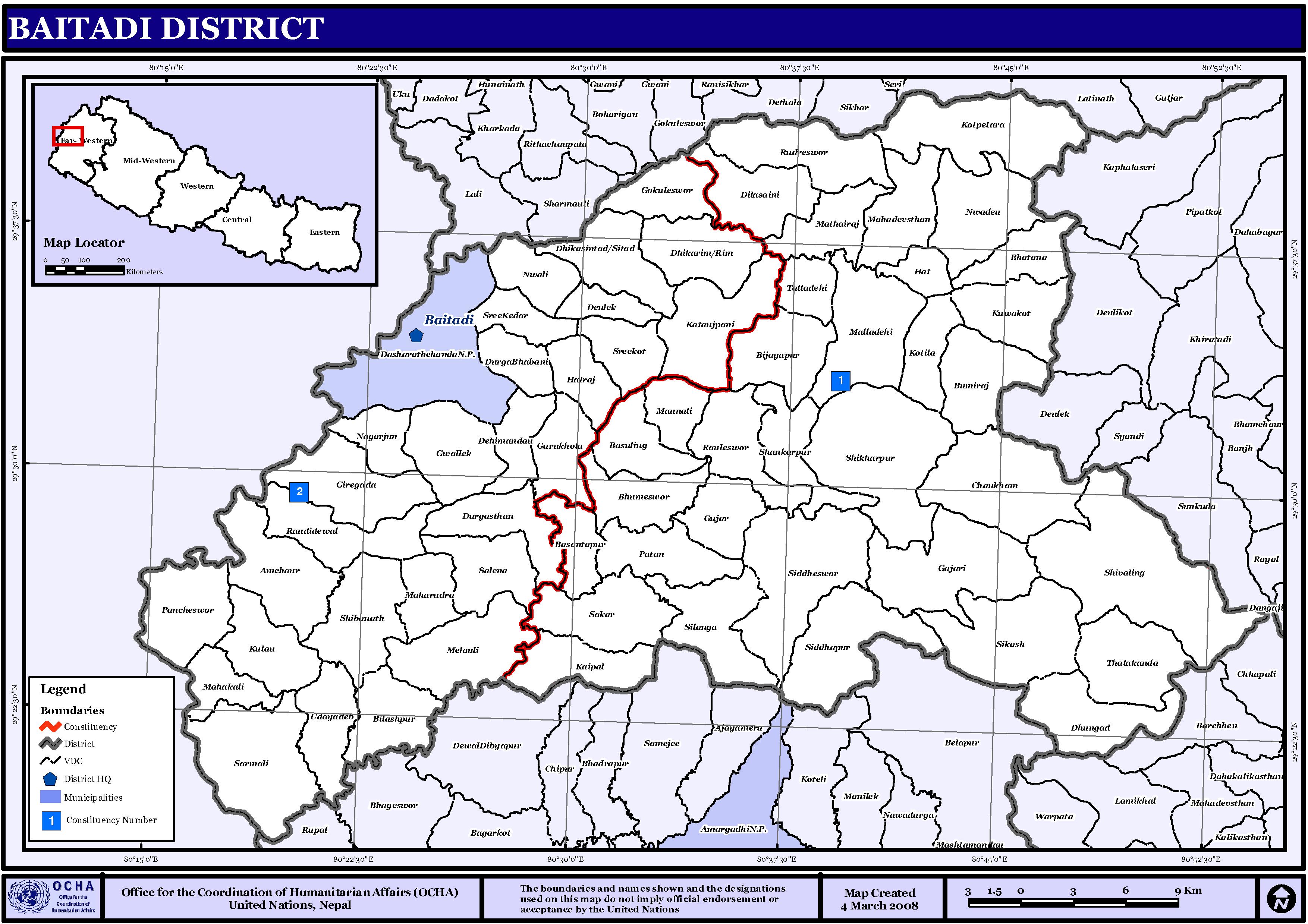 Map displaying Village Development Committees in Baitadi District, Nepal